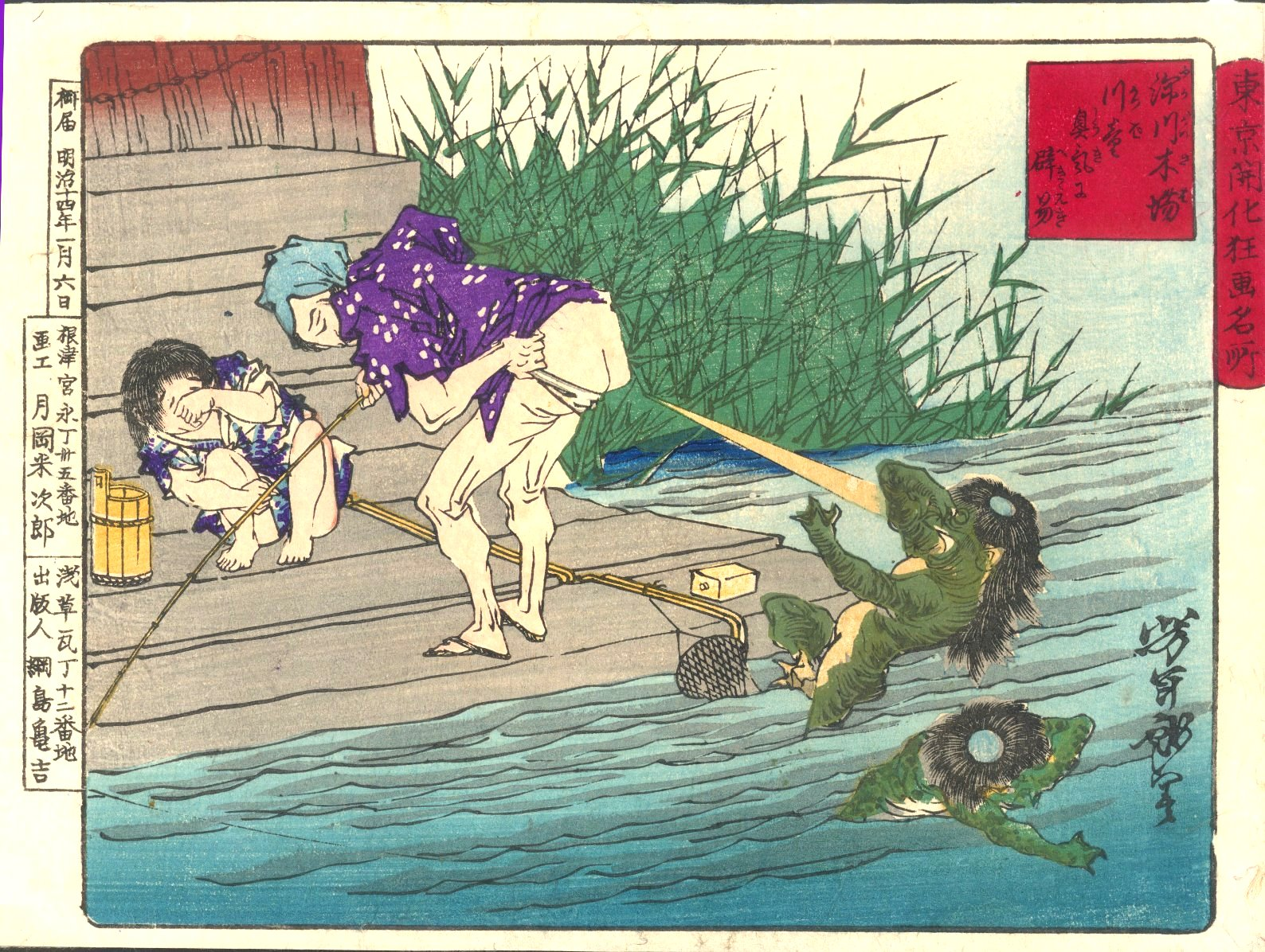 Repelling kappa with a fart.